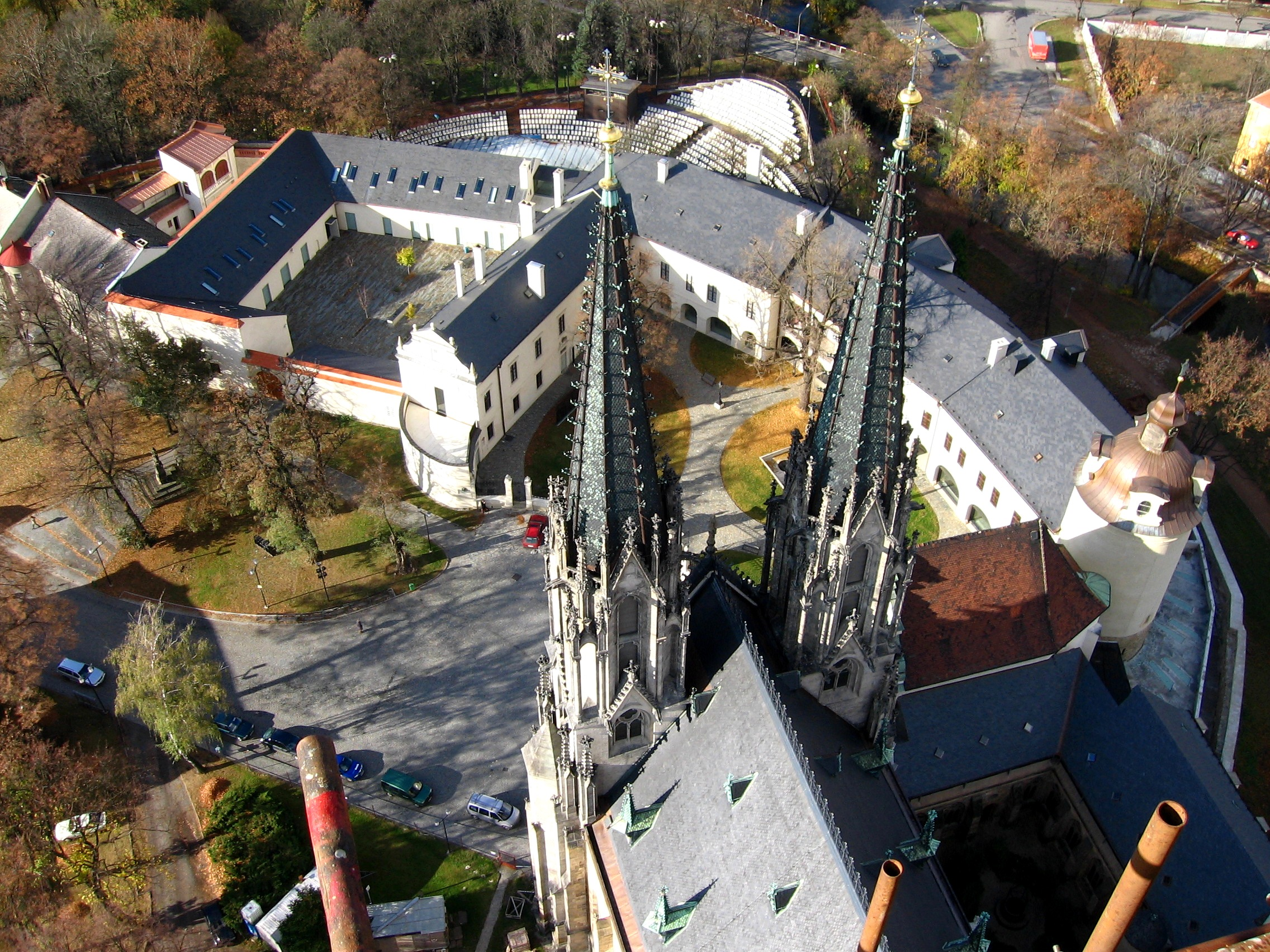 The Archidiocesan Museum in Olomouc, the Czech Republic.